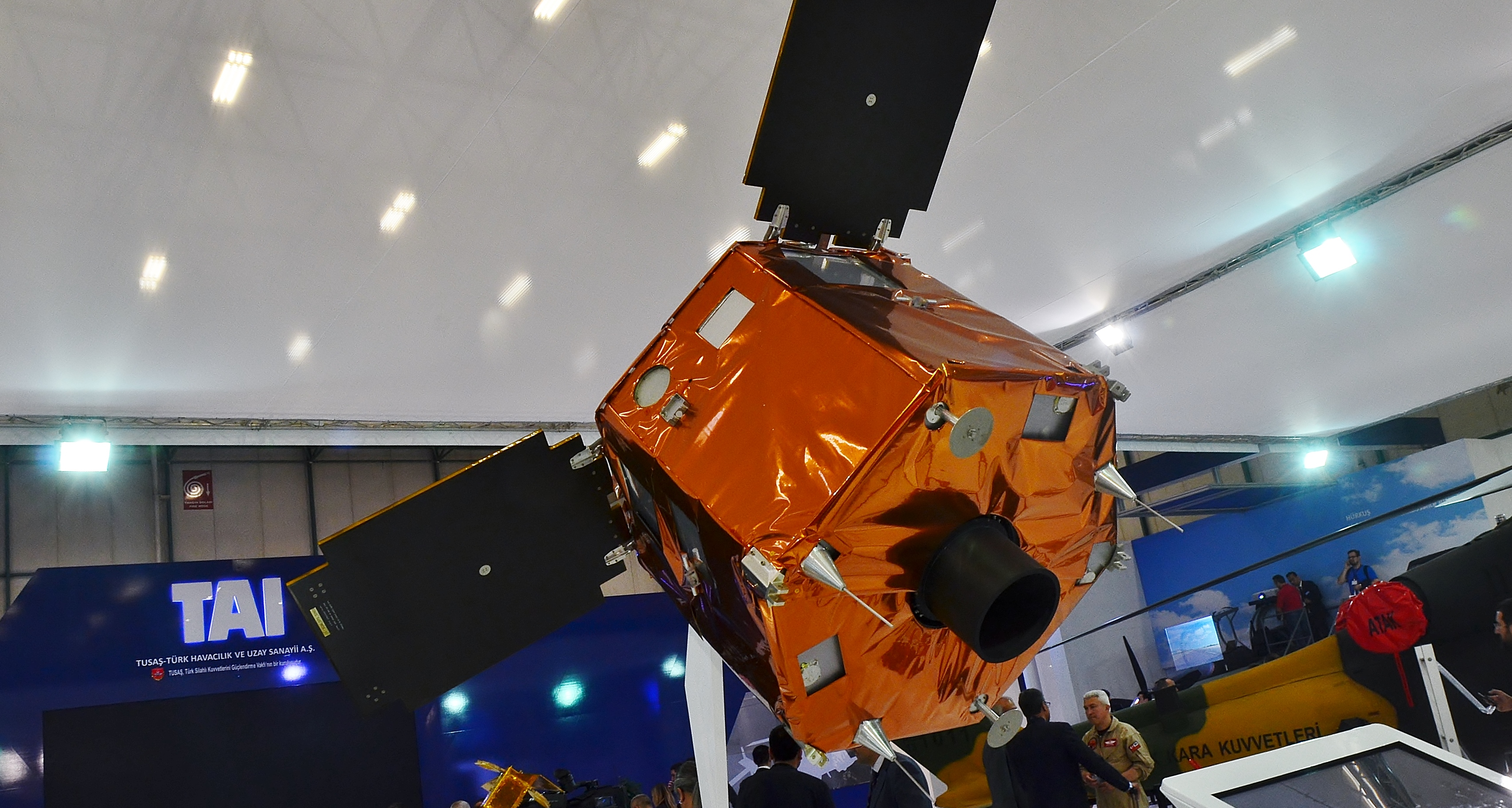 Communcations and military satellite Türksat 6A (model) of Türksat by Turkish Aerospace Industries at IDEF 2015